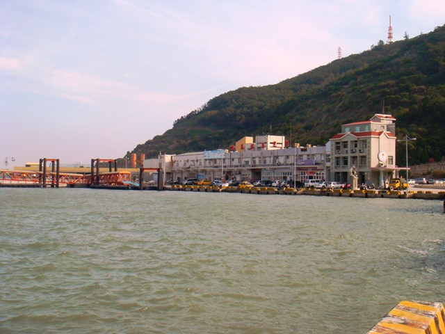 Fuao Harbor, Nangan Township, Matsu Islands, Fujian Province, Republic of China